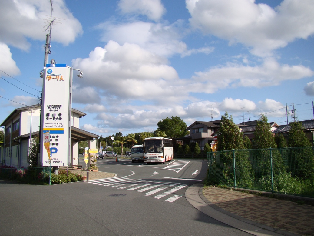 Kanzanji public parking in Hamamatsu city Shizuoka Japan